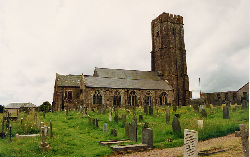 All Saints, North Molton, Devon